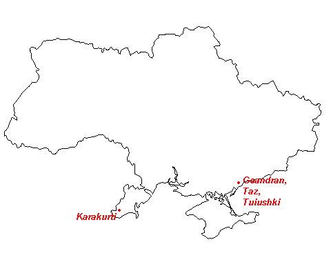 Map representing the position of the 4 Albanian villages in Ukraine.